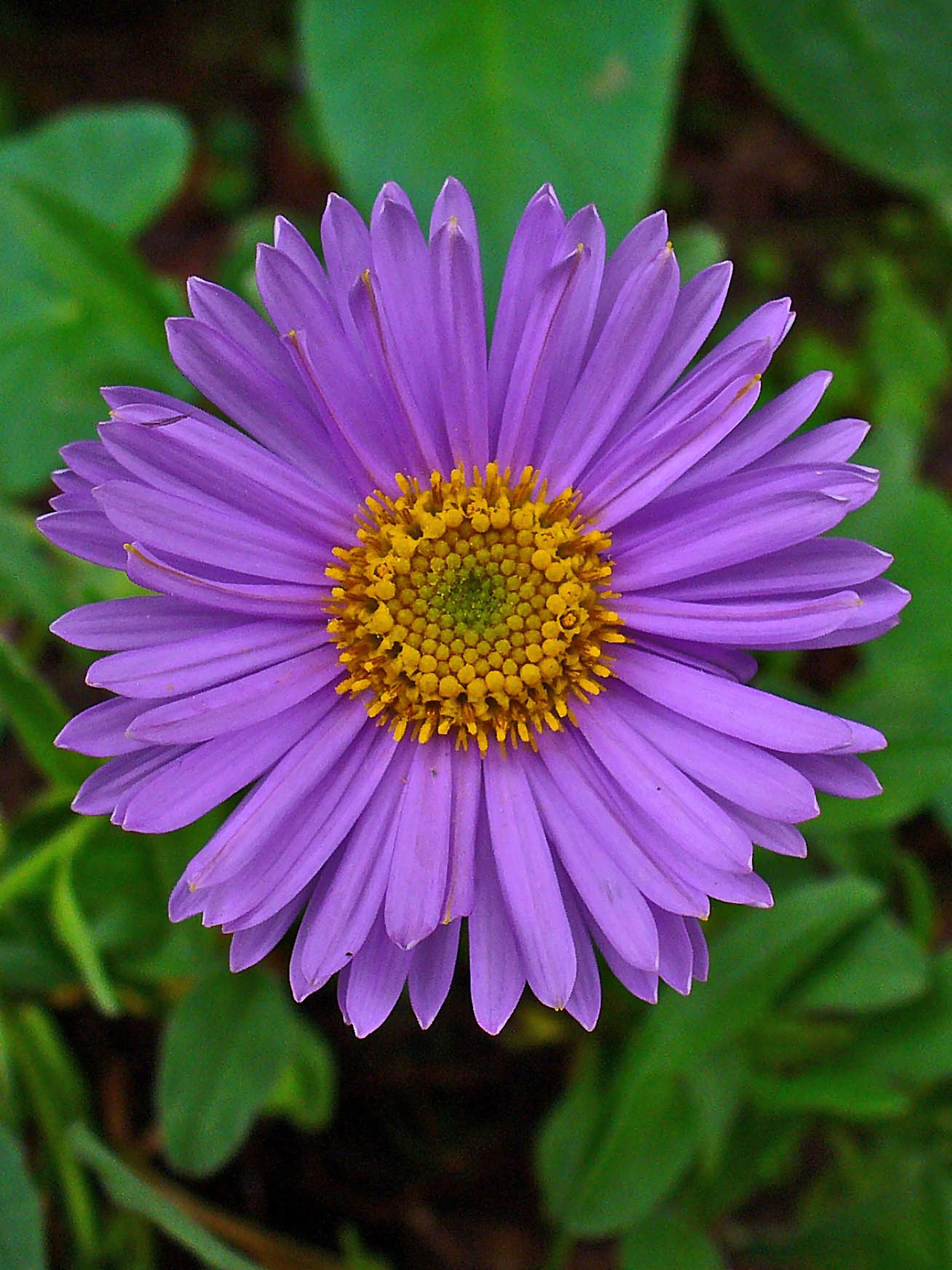 Aster alpinus, Asteraceae, Alpine Aster, inflorescence; Botanical Garden KIT, Karlsruhe, Germany.